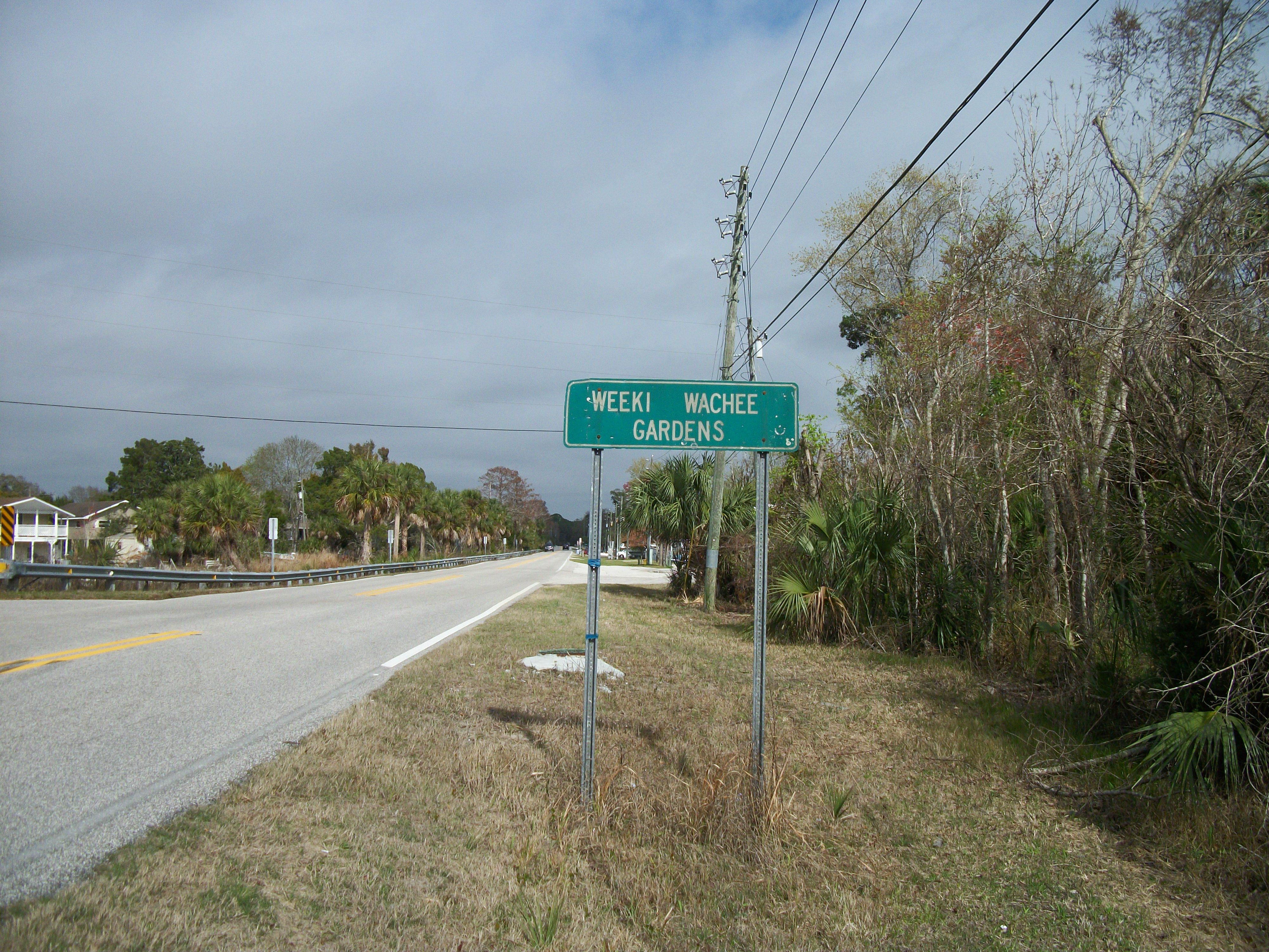 Northbound Hernando County Road 597 as it enters Weeki Wachee Gardens, Florida from Hernando Beach, Florida. Taken from what passes for the shoulder of the road, and putting my car and myself at risk.